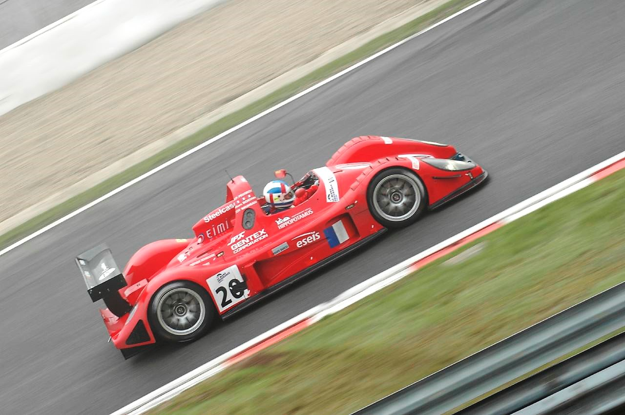 Bruneau Pilbeam MP91 JPX at the 2005 1000km of Spa